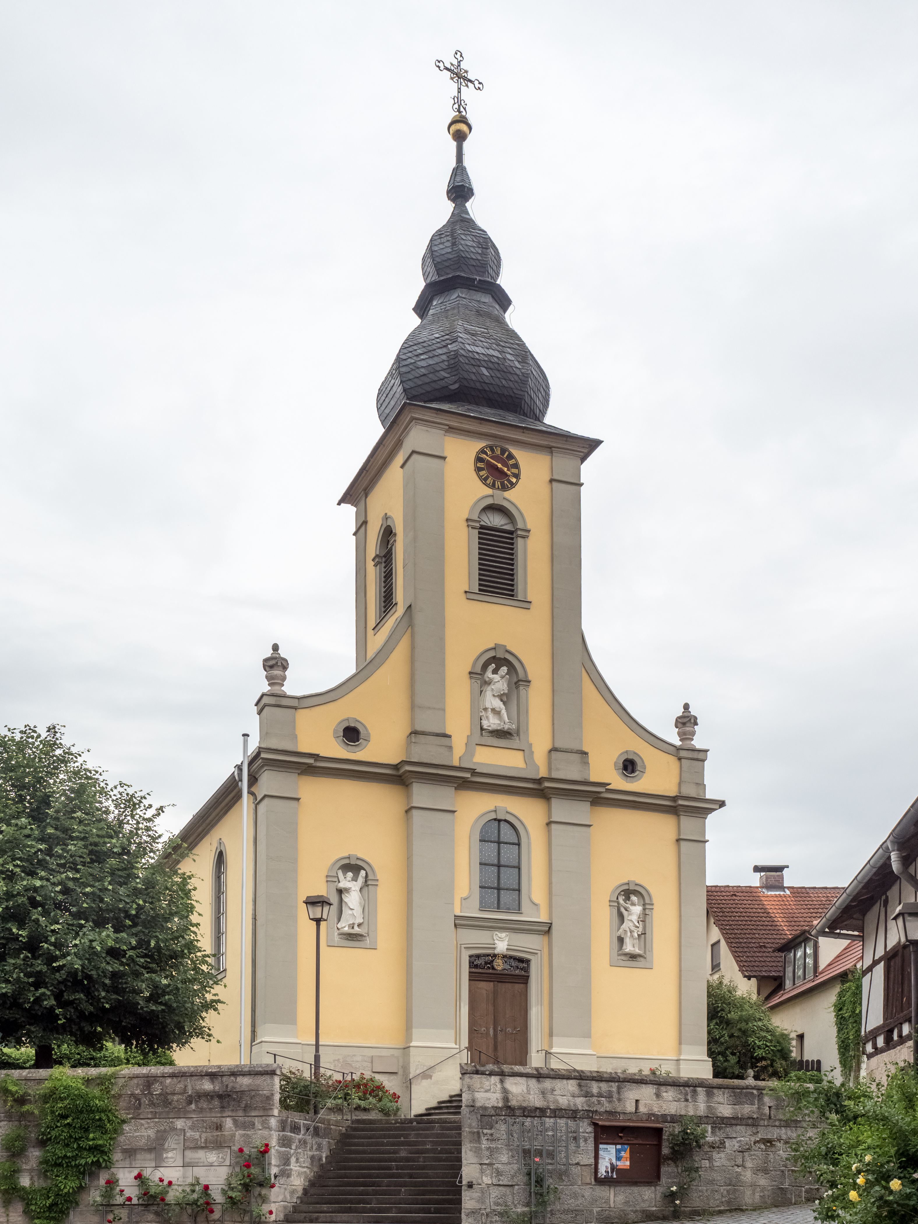 Catholic branch church St. Andreas, St. Katharina and St. Sebastian in Neubrunn (Haßberge)